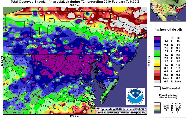 First North American blizzard of 2010 snowfall accumulation map. Courtesy of the National Weather Service